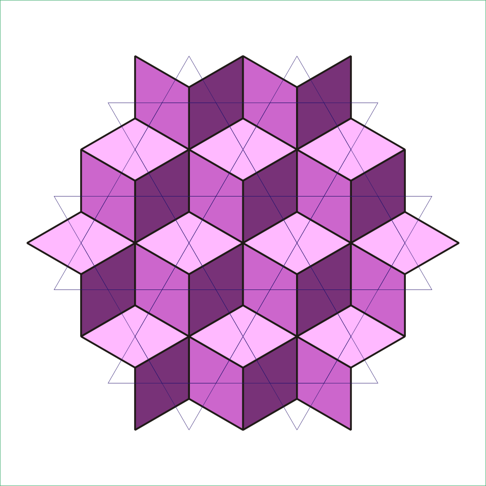 Dual Tiling